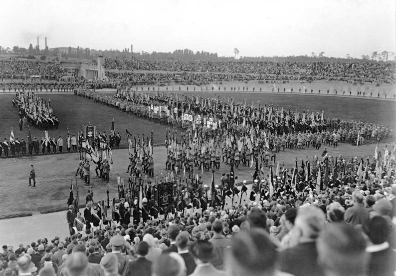 Die grosse Kundgebung 10 Jahre Versailles im Berliner Stadion! Über 50 tausend Menschen wohnten der Feier bei. Blick in das Stadion während des Einziehens der Fahnenkompanie des Stahlhelms. Information added by Wikimedia users.English-The large demonstration of 10 years after Versailles by the citizens in Berlin stadium! Over 50 thousand humans attended the celebration. View into the stadium during the drawing of the flag by a company in the steel helmets.